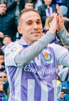 Real Valladolid - Valencia C. F., 38th fixture of the 2018-19 La Liga, May 18, 2019.